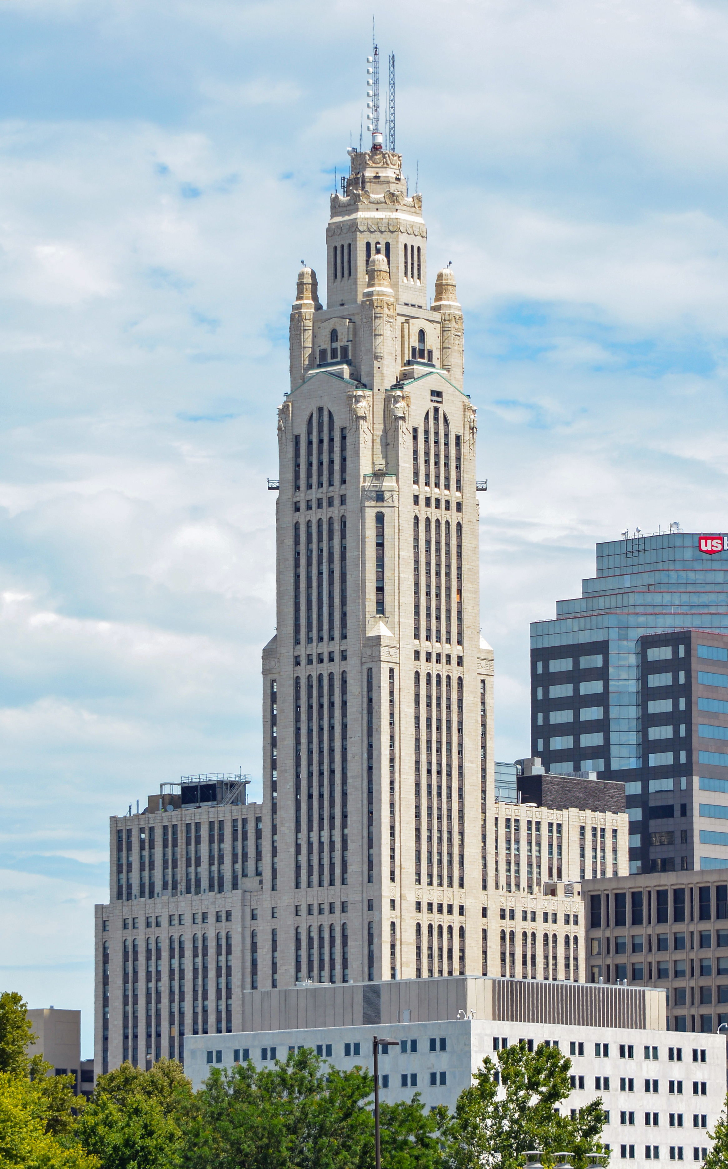 Crop of File:LeVeque Tower, Columbus, OH, US.jpg. Depicts the LeVeque Tower, Columbus, Ohio, U.S.